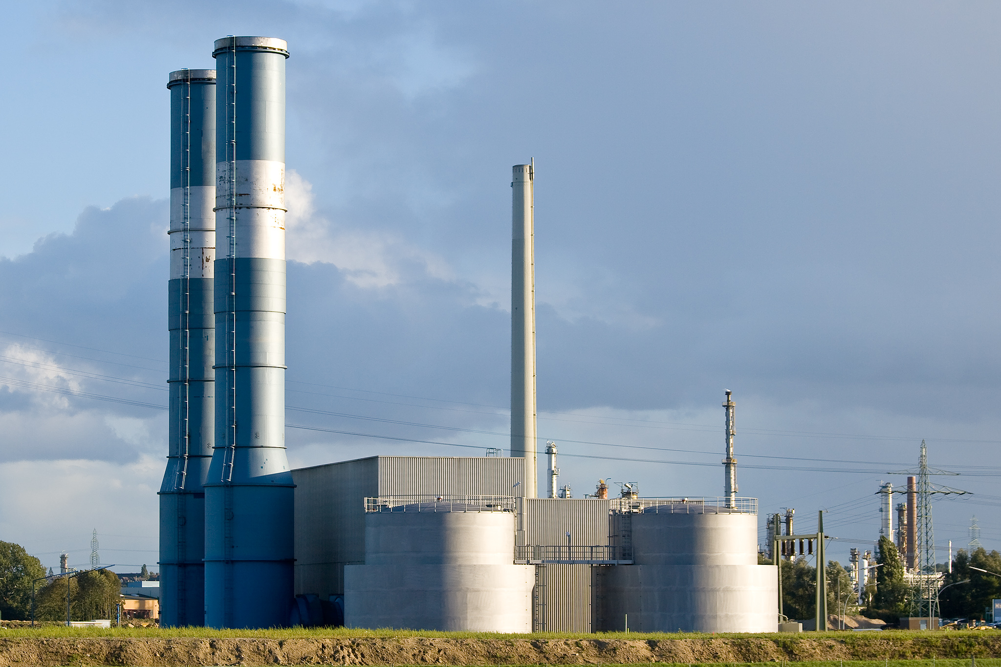 Gas turbine power plant in Hamburg-Moorburg, Germany.